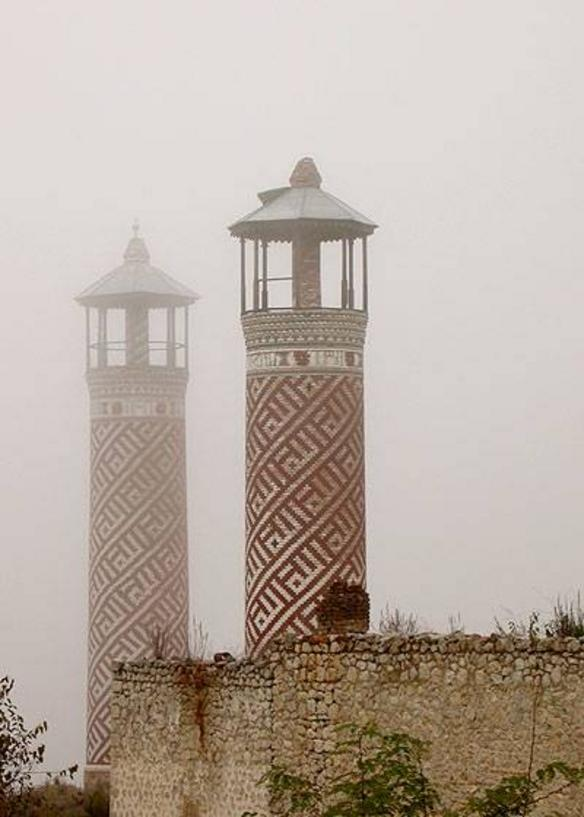 Ruins of the Govheraga Mosque (XVIII c.) in Shusha.